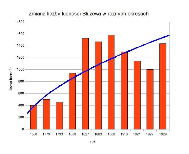 Changes of the number of the people live in Sluzewo in kujavian cauntry in Poland in deferent period